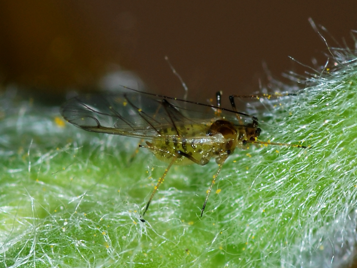 Cabbage Aphid (Brevicoryne brassicae)